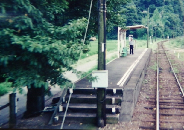 Meitetsu Tanigumi line Saraji station (2001)